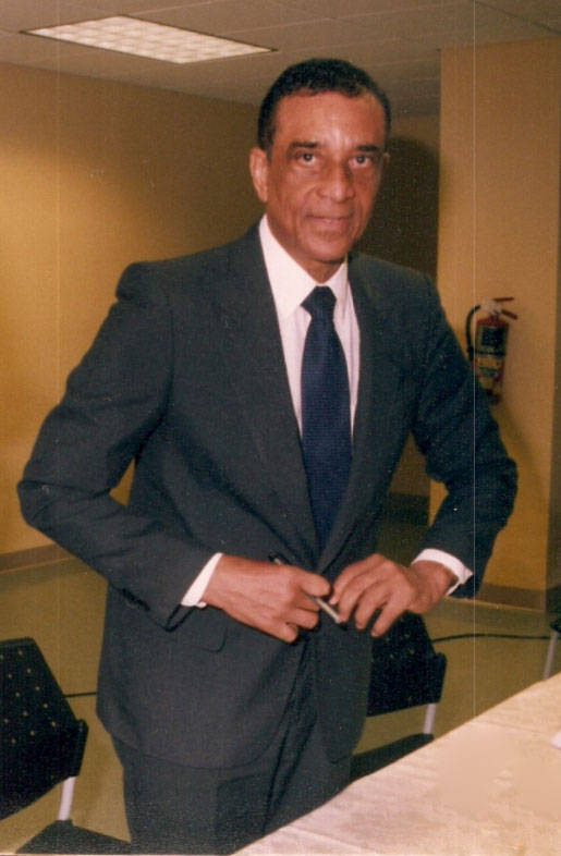 Justo Arroyo, awarded panamanian author